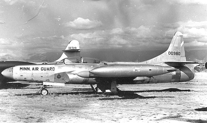 109th Fighter-Interceptor Squadron Lockheed F-94C-1-LO Starfire 50-980 Aircraft now on display at WPAFB Museum, marked as 50-1054.